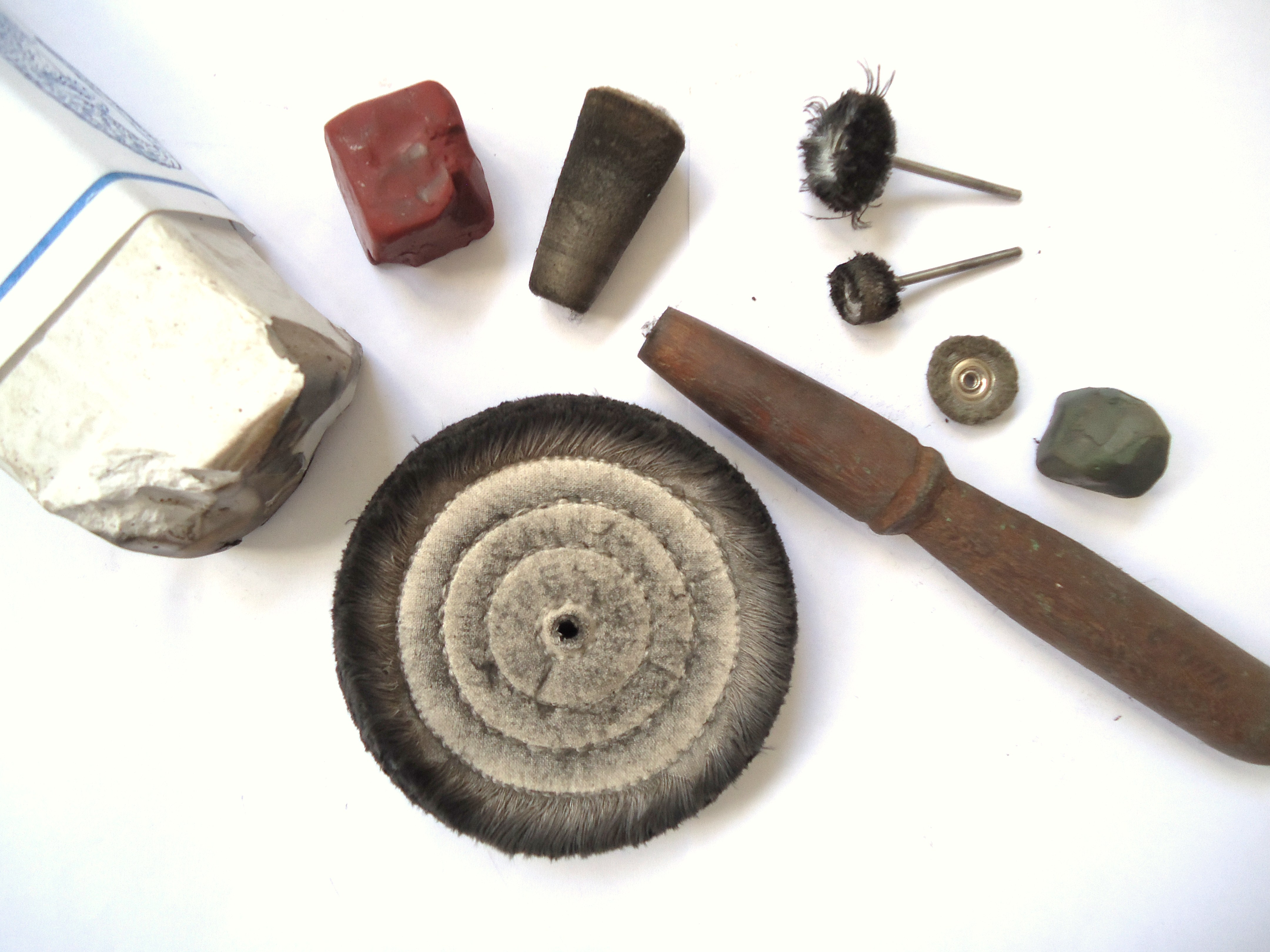 Polishing material for jewellery. Photo : Mauro Cateb, Brazilian jeweler.